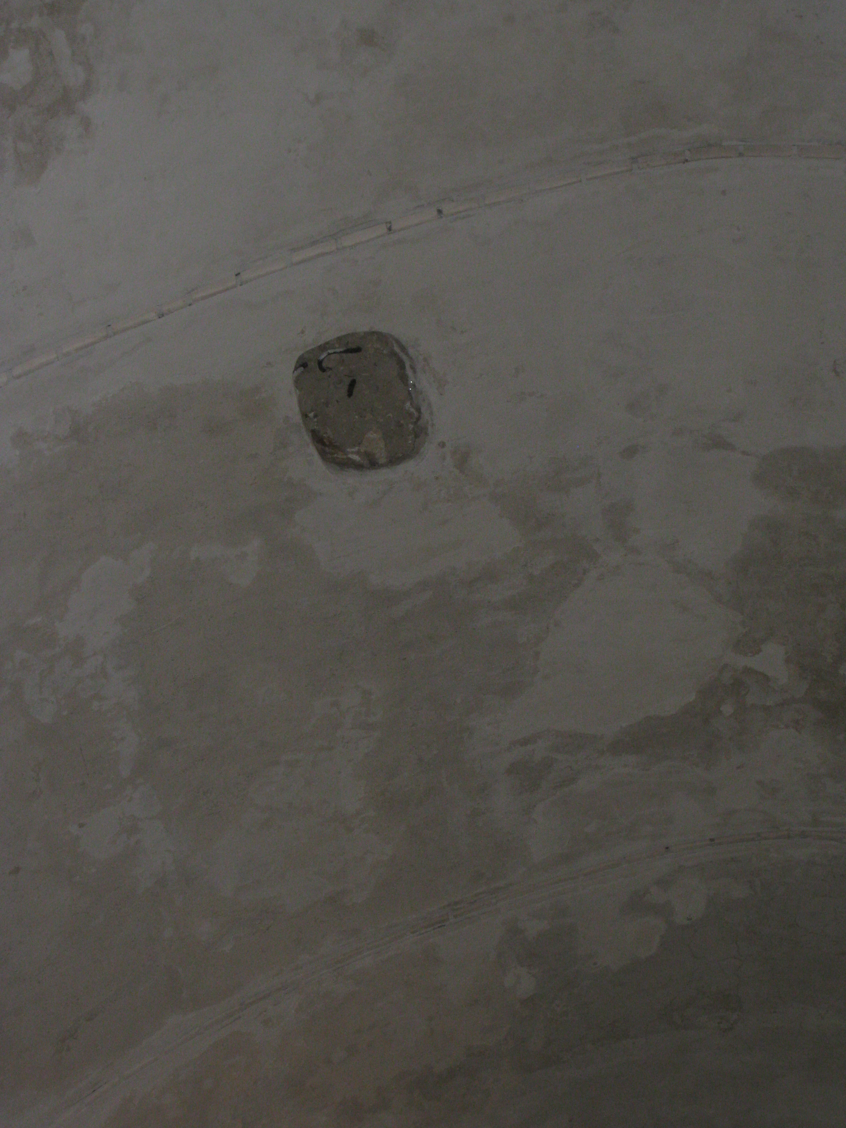 Crusader's Halls